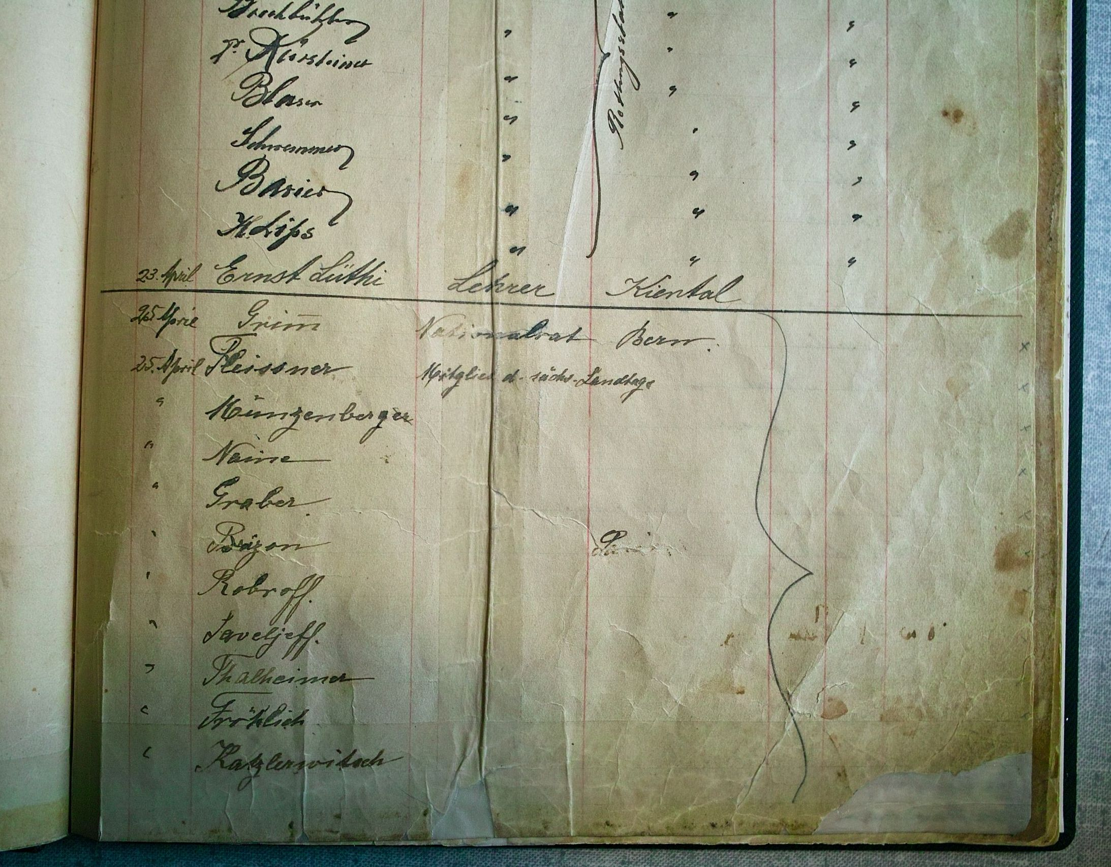 List of participants at the Kiental conference in Kiental, 24-30 april 1916. Scan of the guestbook of the hotel "Bären". Page 1/2.